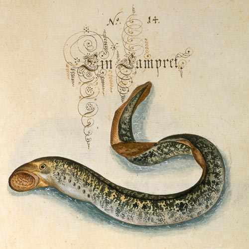 Sea lamprey